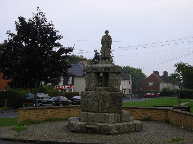 The memorial, Severals Park.